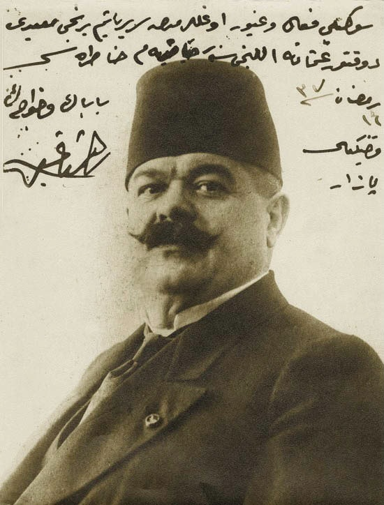 Raşit Tahsin Tuğsavul (1870-1936), Turkish neuropsychiatrist